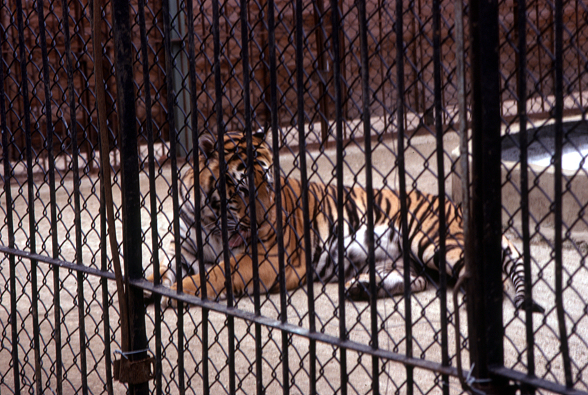 Tiger at Southampton Zoo. Scanned from a Kodachrome 35mm slide.